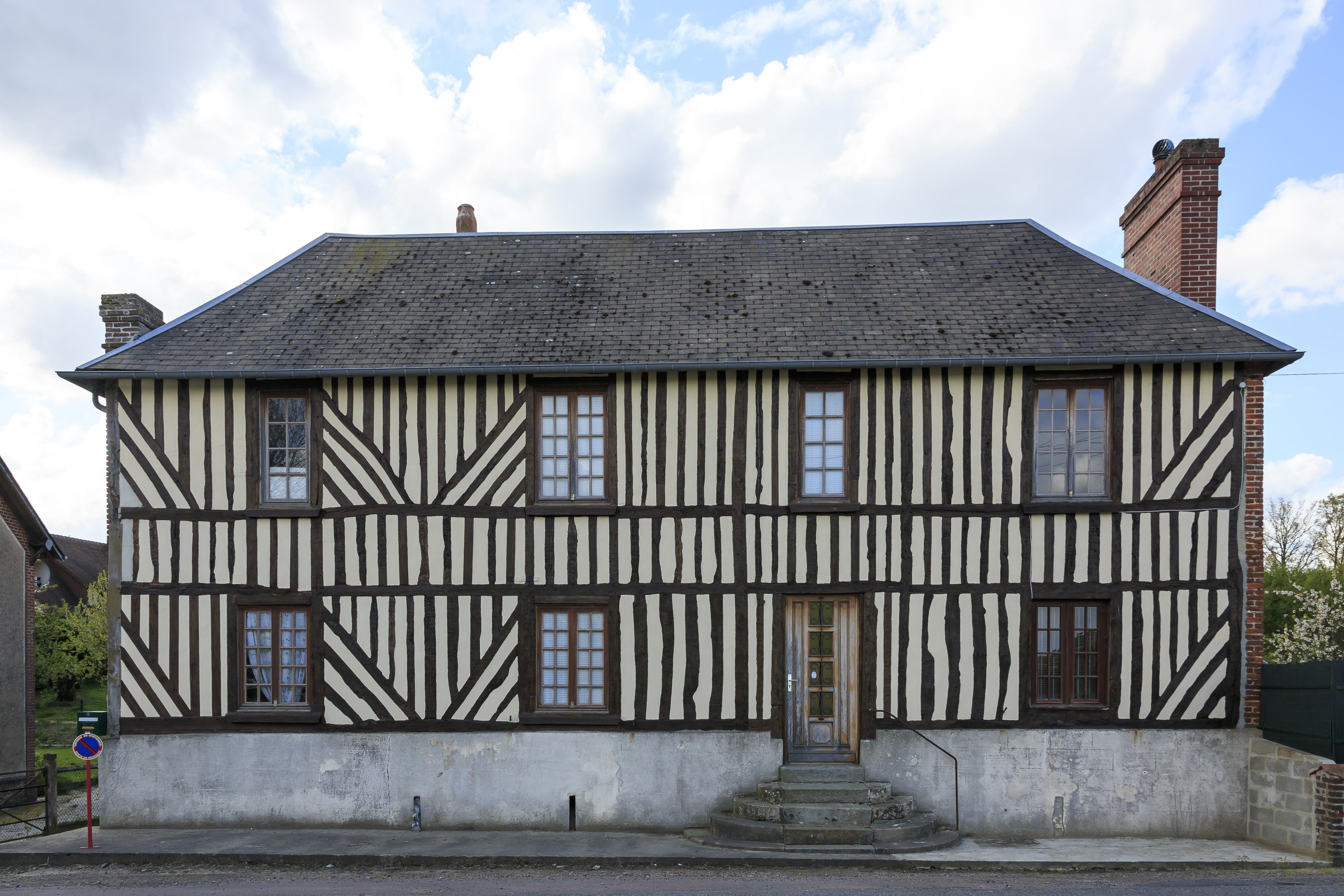 Ducey, France: Half timbered house in Departement de Manche